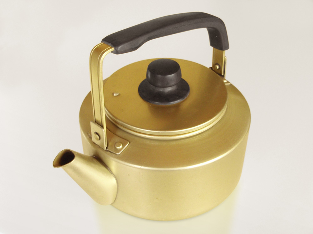 Standard kettle in Japan.